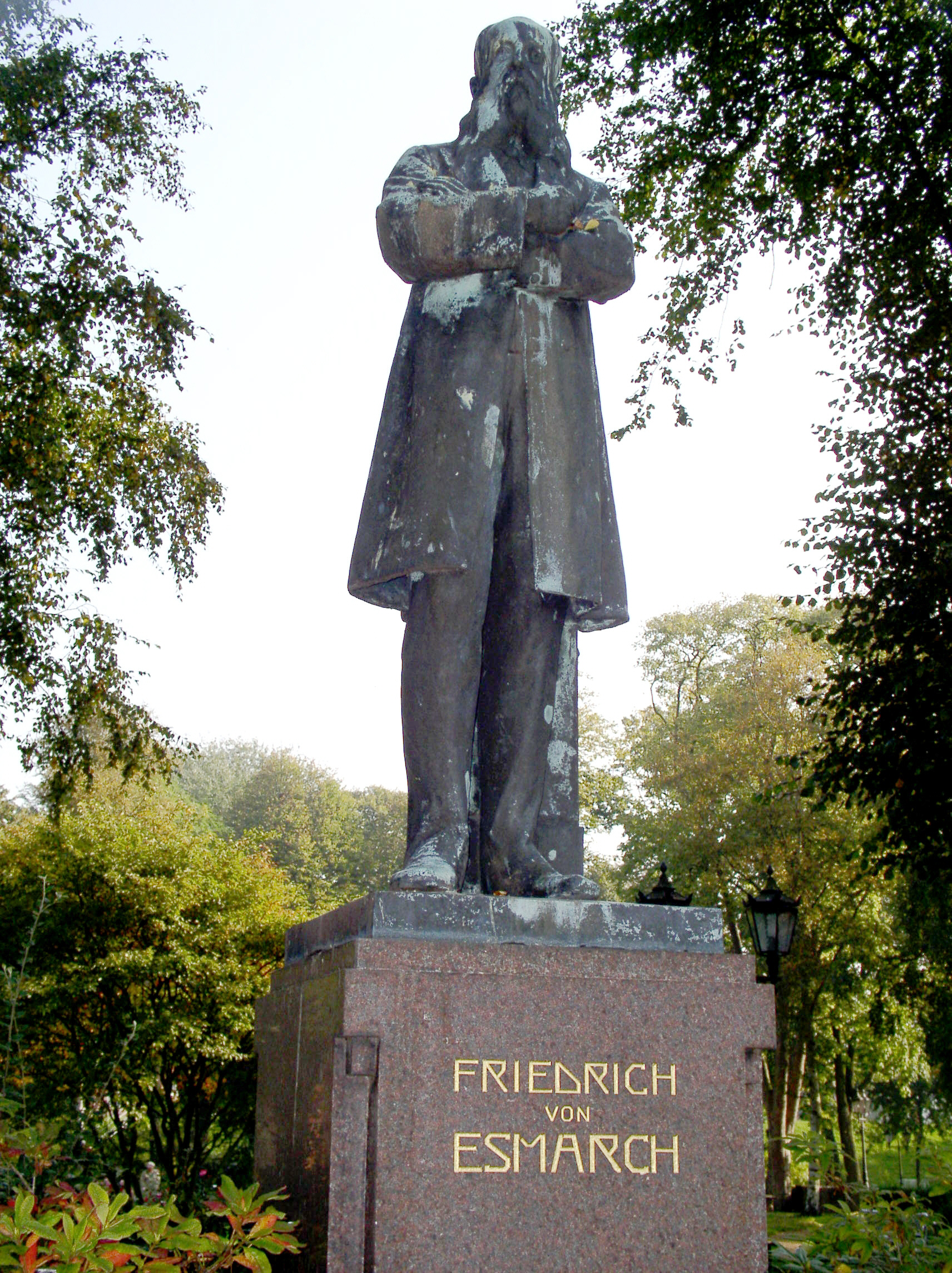 Sculpture of Friedrich von Esmarch in Tönning, Germany.